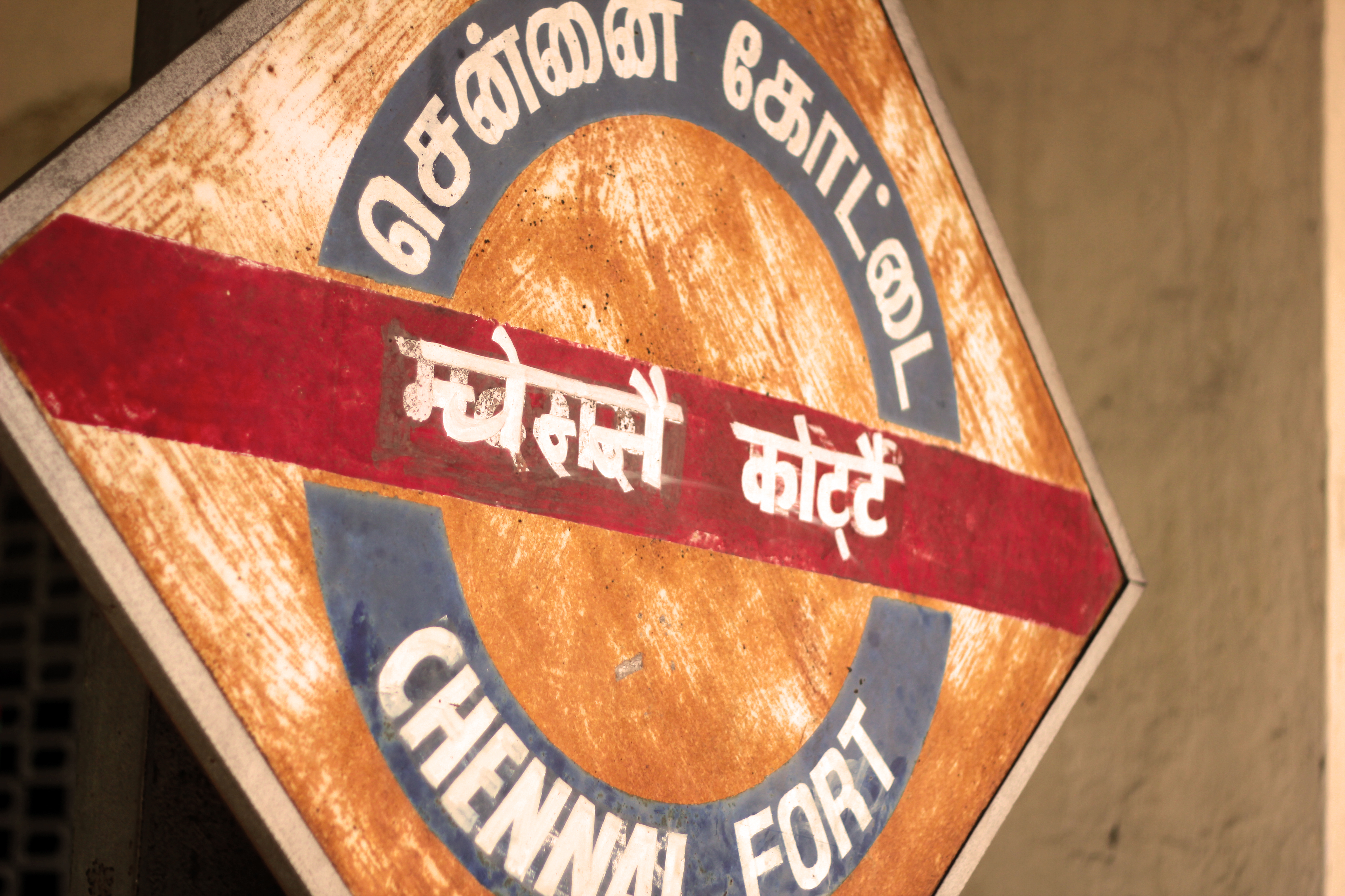 Rust. In the Chennai Fort station, where it is illegal to take photos without prior permission[citation needed]